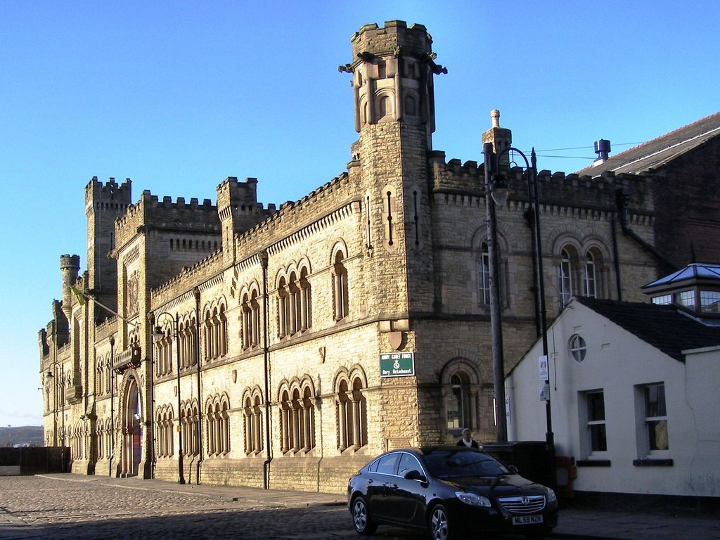 The Castle Armoury The drill hall for the 8th Lancashire (Bury) Rifle Volunteer Corps (the Castle Armoury) was built on the historical site of Bury Castle in 1868. To reflect the 'castle' its facade has a fortified style with features such as castellations, turrets, towers and arrow slits. Bury